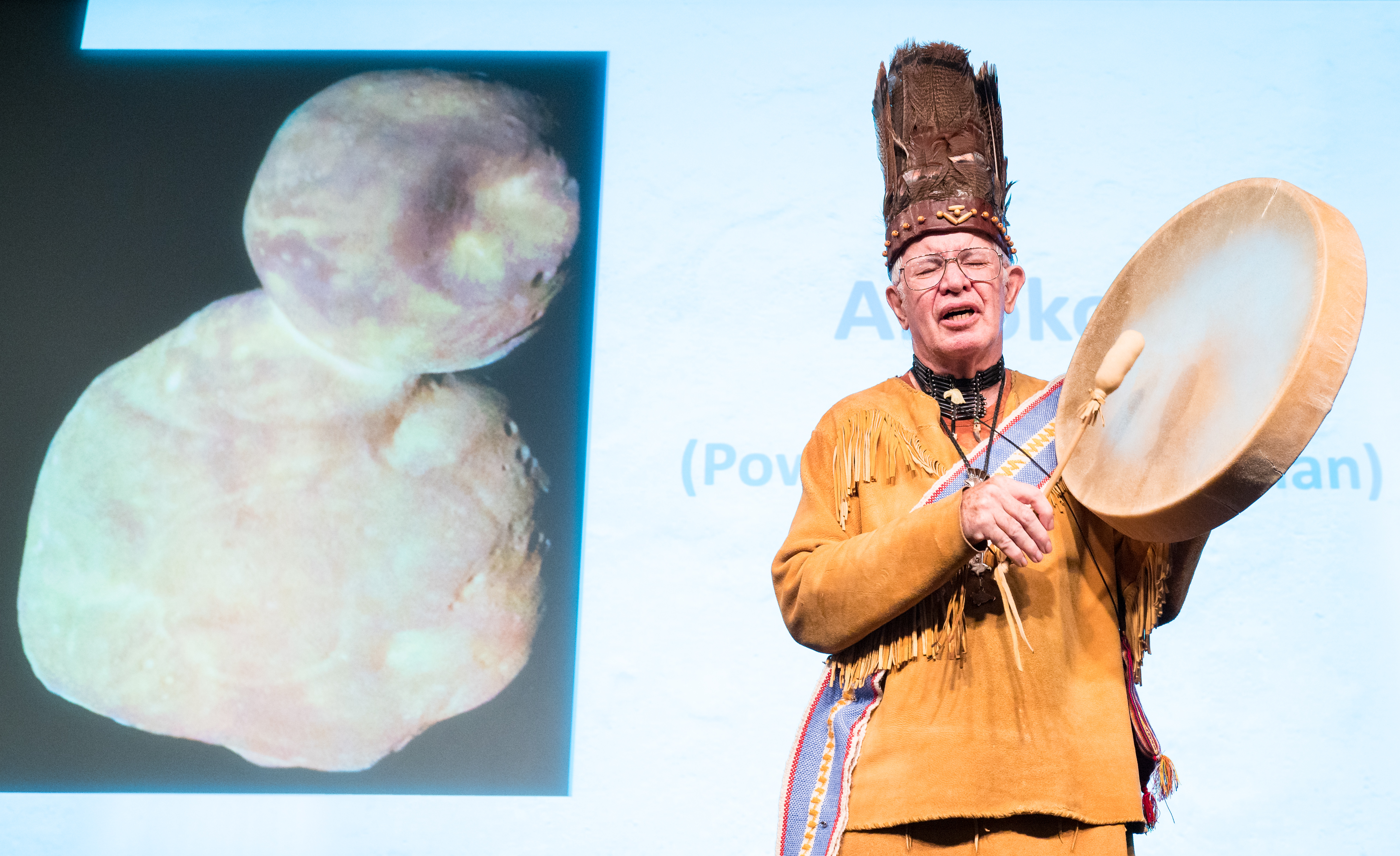 Reverend Nick Miles, Tecumseh Red Cloud, Pamunkey Tribe, performs a closing chant at a naming ceremony for 2014 MU69, a celestial body discovered by the New Horizons mission and Hubble Space Telescope, formerly nicknamed “Ultima Thule”, Tuesday, Nov. 12, 2019, at NASA Headquarters in Washington. The new name, “Arrokoth,” means “sky” and is from the Algonquian Languages, spoken by the Powhatan tribes of the region of Maryland it was discovered in. Tribal elders from those tribes approved of the name and participated in the ceremony.